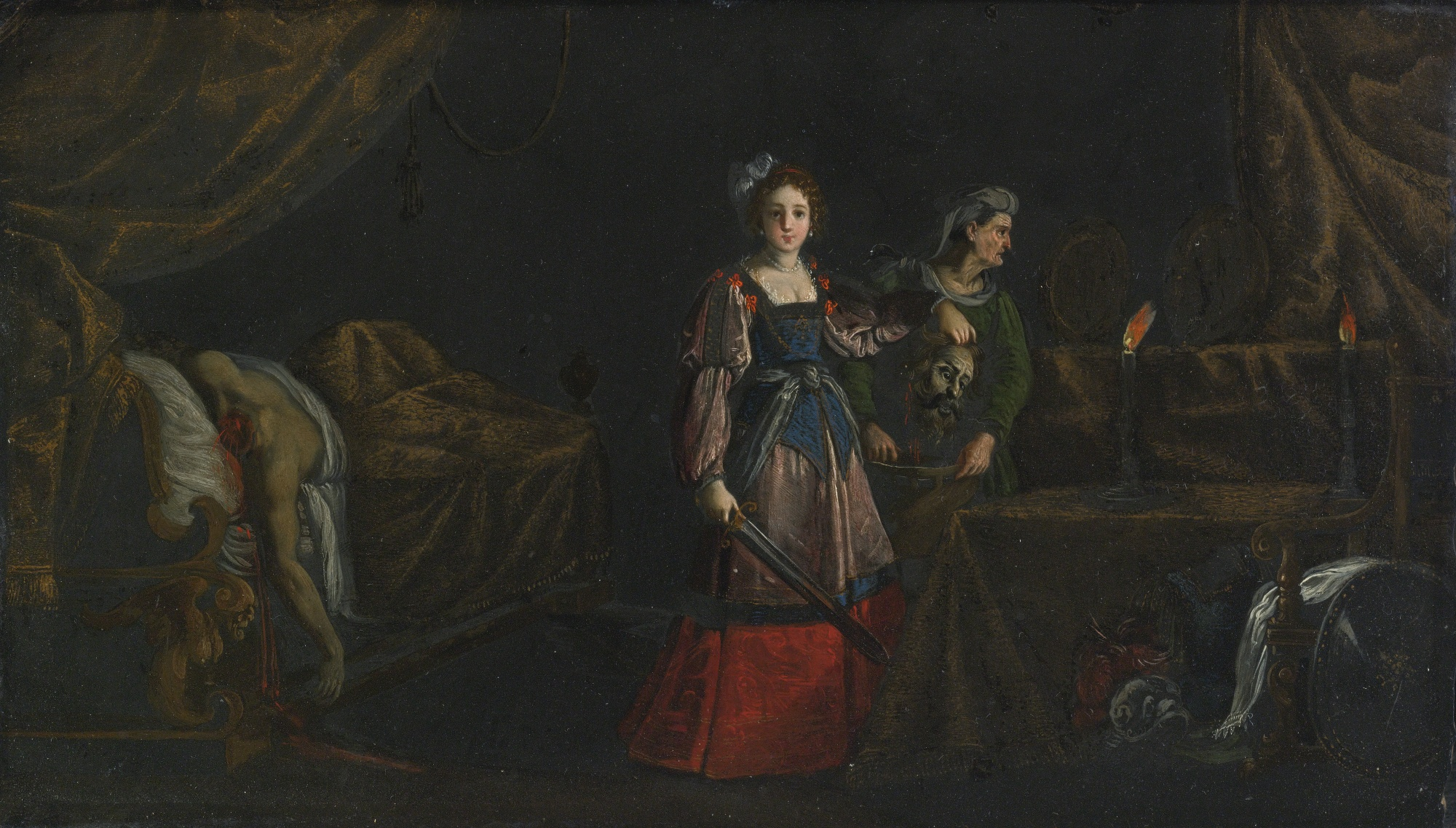 Judith with the head of Holofernes